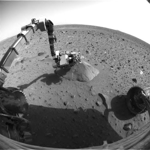 Photo of the rock "Adirondack" by Mars rover Spirit